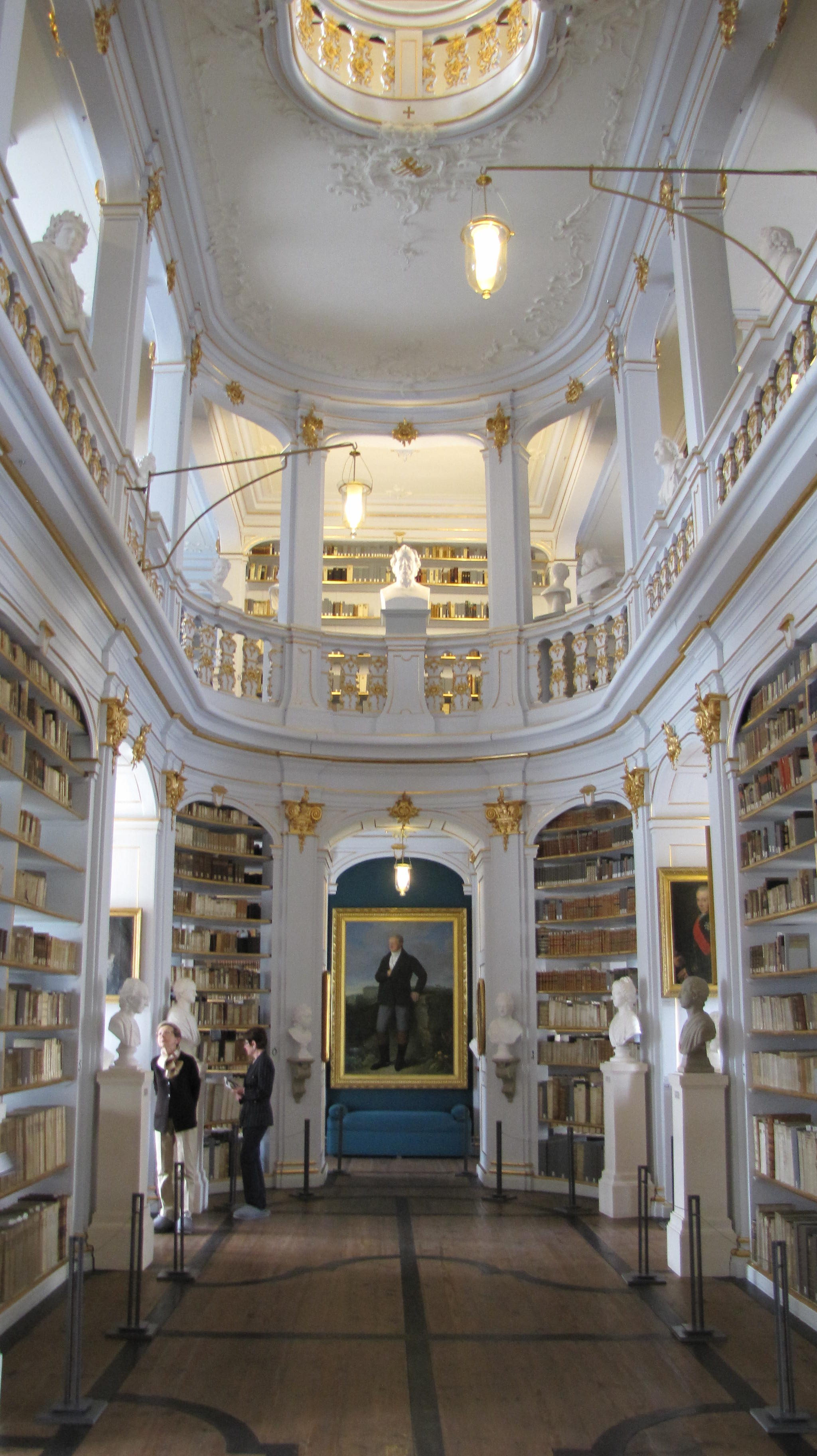 Historic main hall of Duchess Anna Amalia Library in Weimer